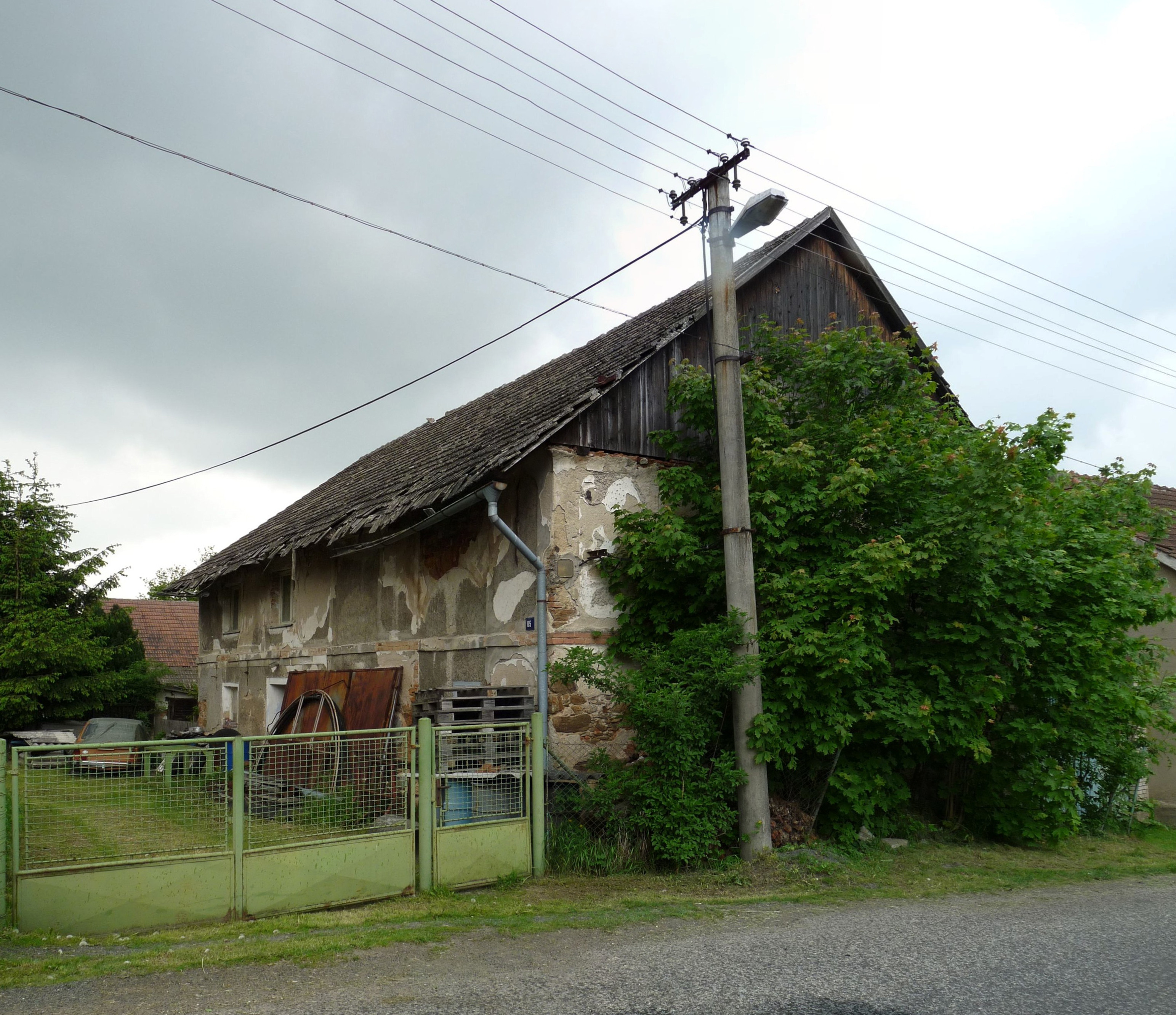 Former synagogue the municipality of Pravonín, Benešov District, Central Bohemian Region, Czech Republic.